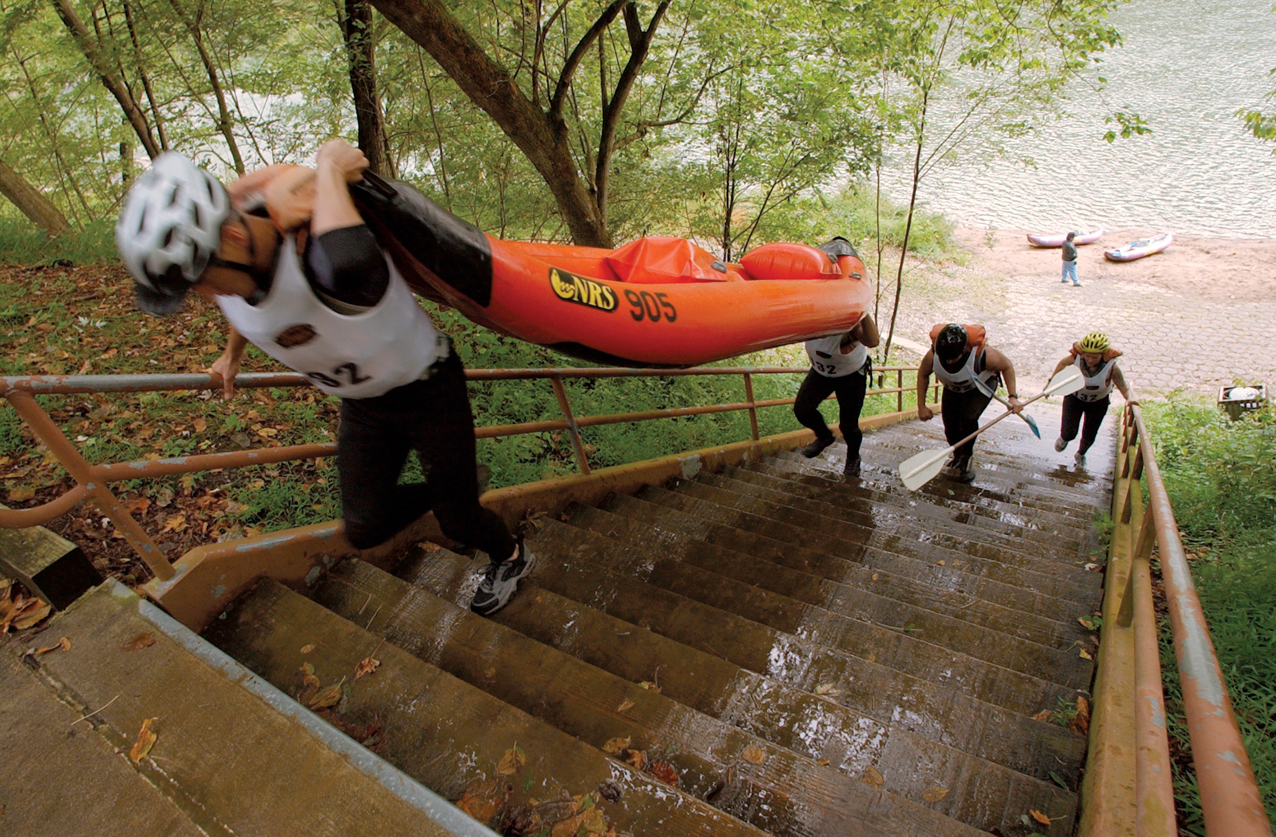 031004-N-6967M-002 The individual events weren't always as quick as they seemed. In the two-man duckie race, finishing meant having to race your inflatable kayak up a set of steps and run to the finish line after getting out of the water. (All Hands, March 2004, pg. 30) Photo by Photographer's Mate 1st Class (AW) Shane T. McCoy. (RELEASED)